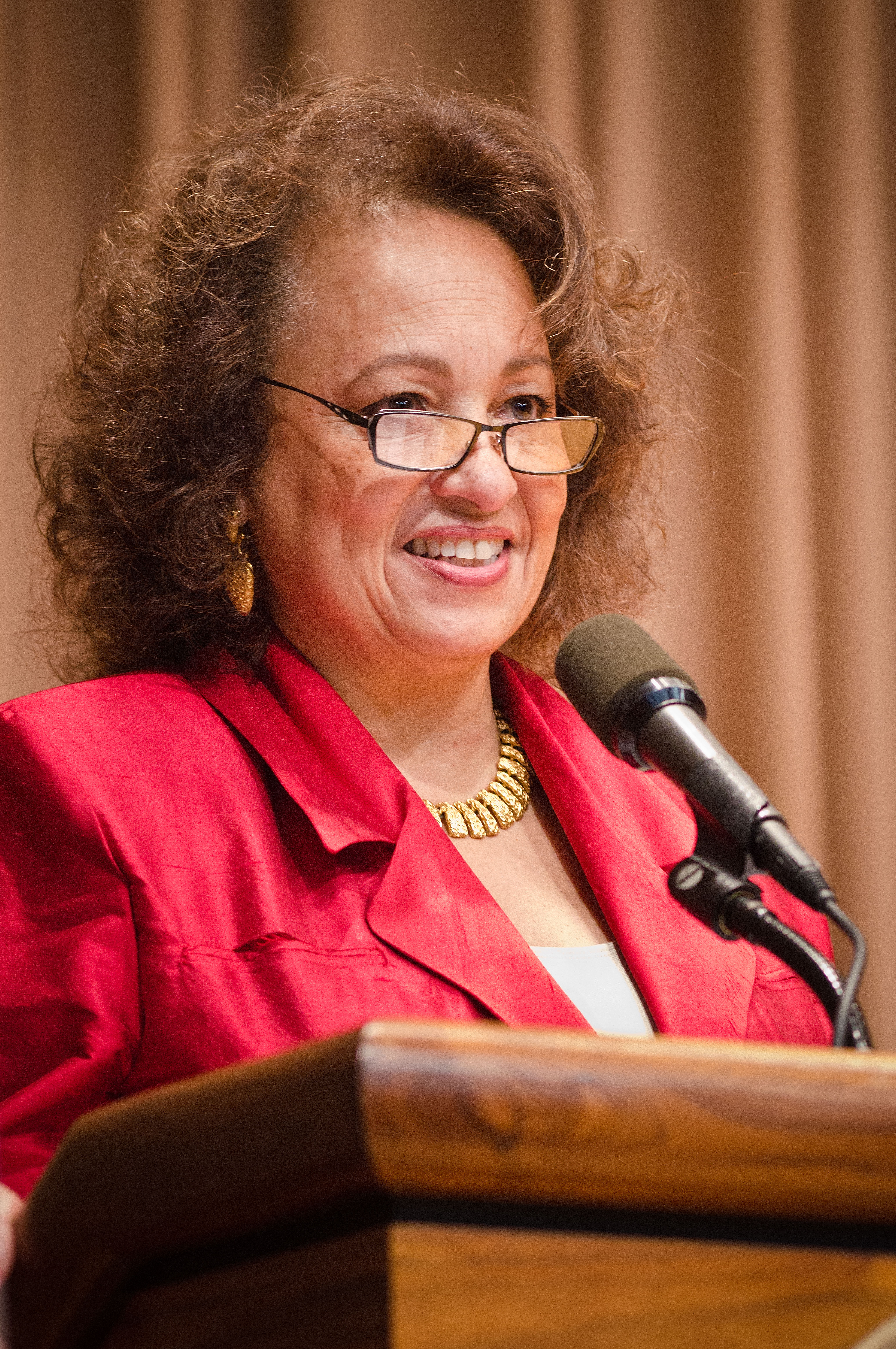 Daphne Maxwell Reid, Actress, Producer and Activist was the keynote speaker for the 2012 Women’s History Month Celebration, “Women’s Education – Women’s Empowerment” held at the United States Department of Agriculture on Thursday, March 8, 2012 in Washington, D.C. USDA Photo by Bob Nichols.